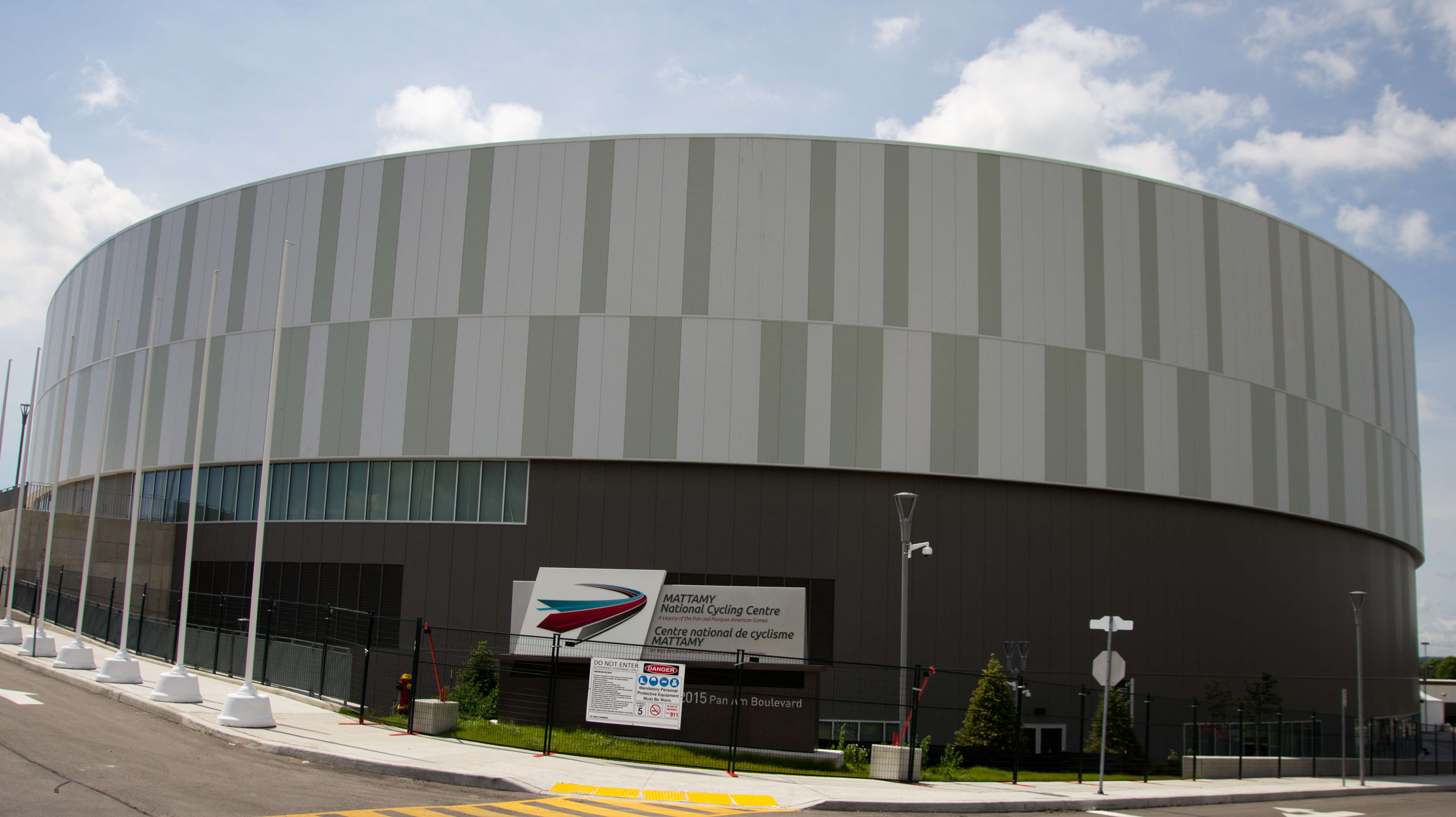 Mattamy National Cycling Centre being prepared for the 2015 Pan Am Games